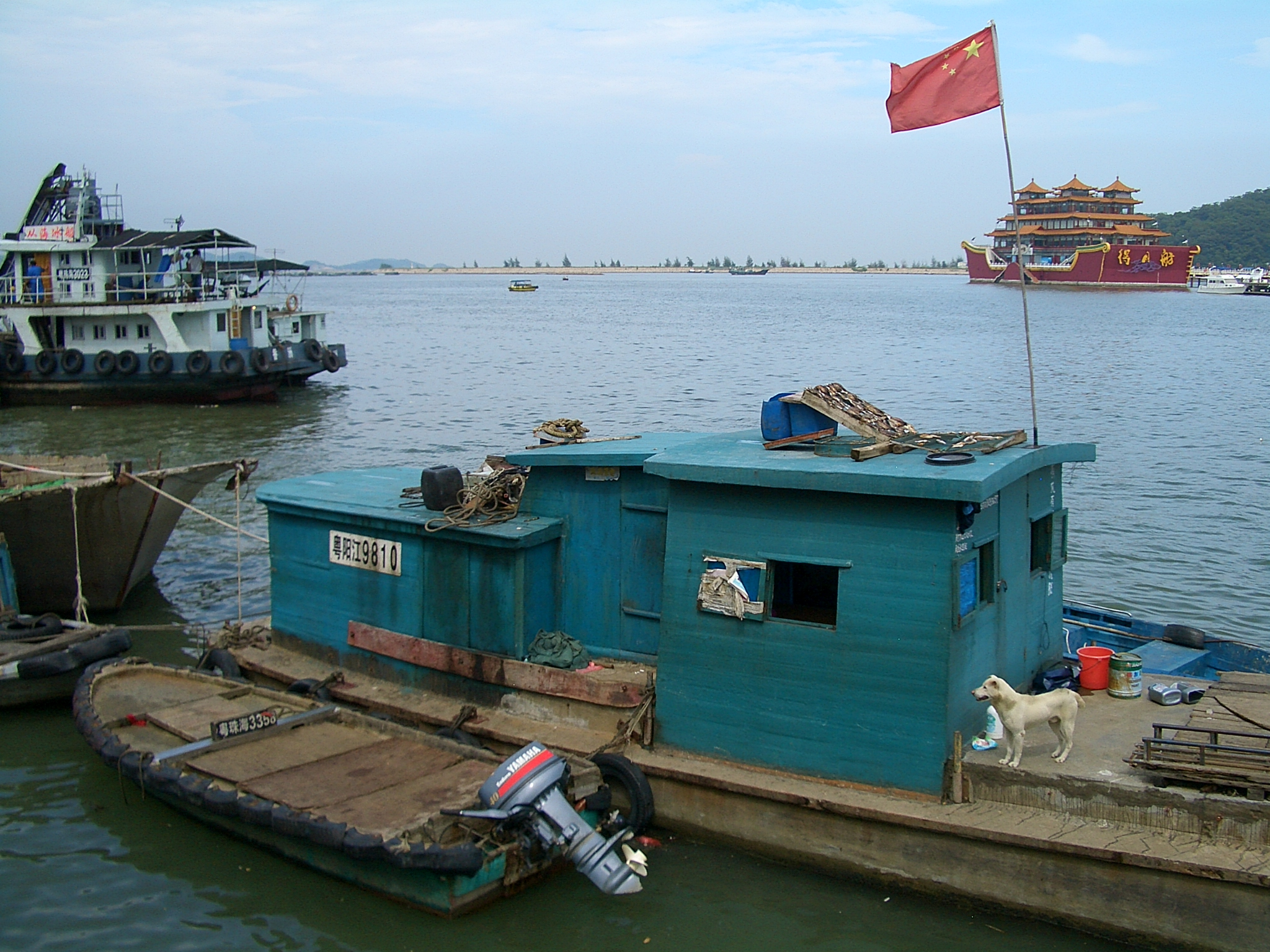 Zhuhai fishing port (north of Yeli Island).